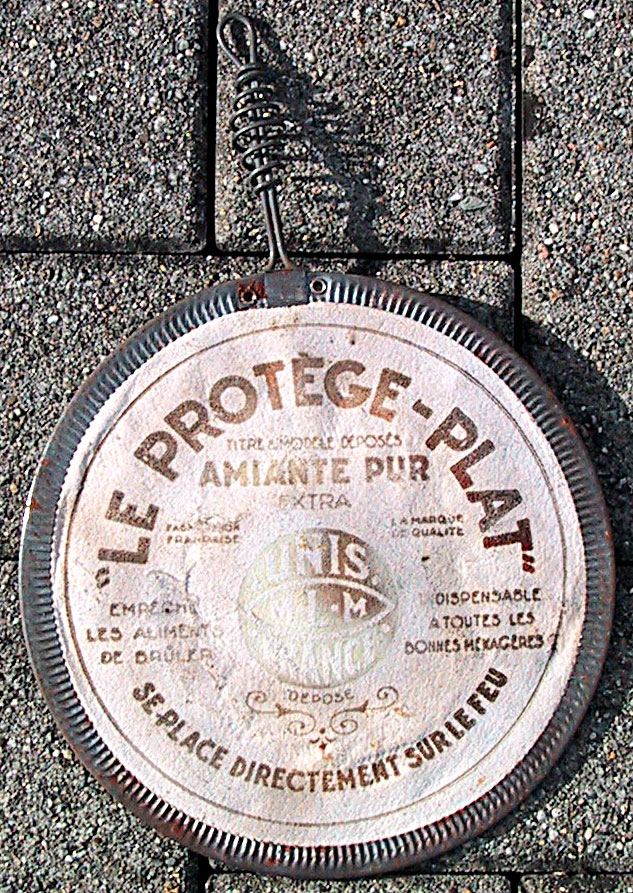 Household heat spreader for cooking on gas stoves, made of asbestos ("Amiante pur" is French for "Pure Asbestos"). Object found while clearing out house, is possibly from the 1950s. Text on object is French (Le protège-plat. Titre & modèle déposés. Amiante pure extra. Fabrication française. La marque de qualité. Empêche les aliments de brûler. Indispensable à toutes les bonnes ménagères. Se place directement sur le feu.). Brand of object no longer readable. The text "UNIS-FRANCE" in the centre is not a brand. UNIS stands for "Union Nationale Inter-Syndicale", the name of a trade association of France against the counterfeiting of products.